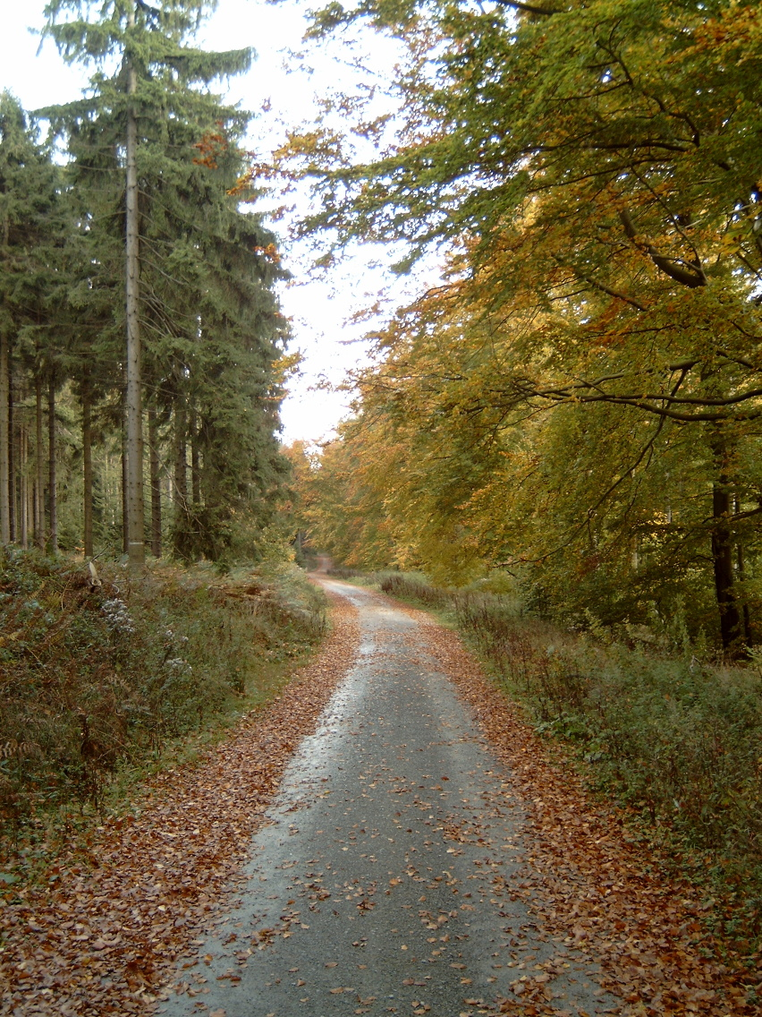 "Deister", ridge-way between "Annaturm" and "Laube" , view in direction "Laube"